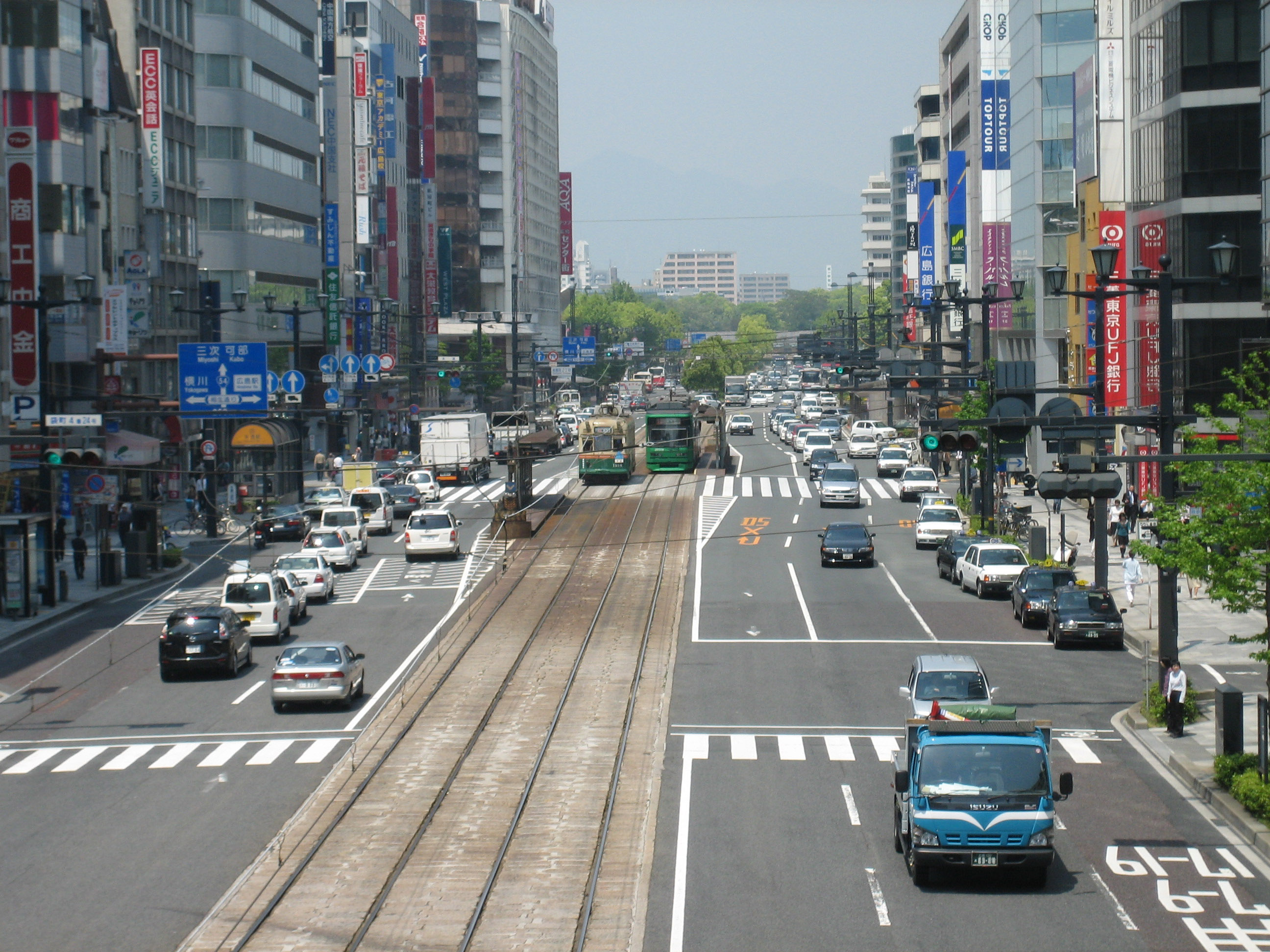 Hiroden Hondori Station and Japan National Route 54.